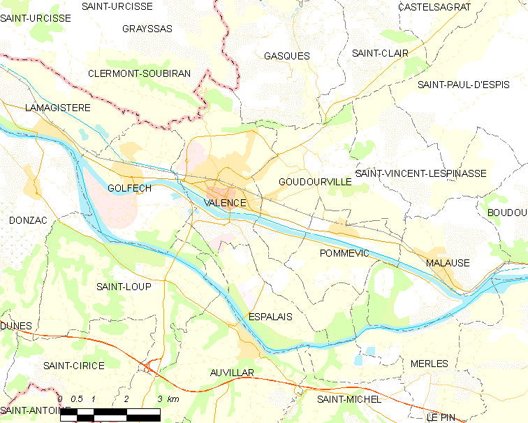 Map of French municipality Valence